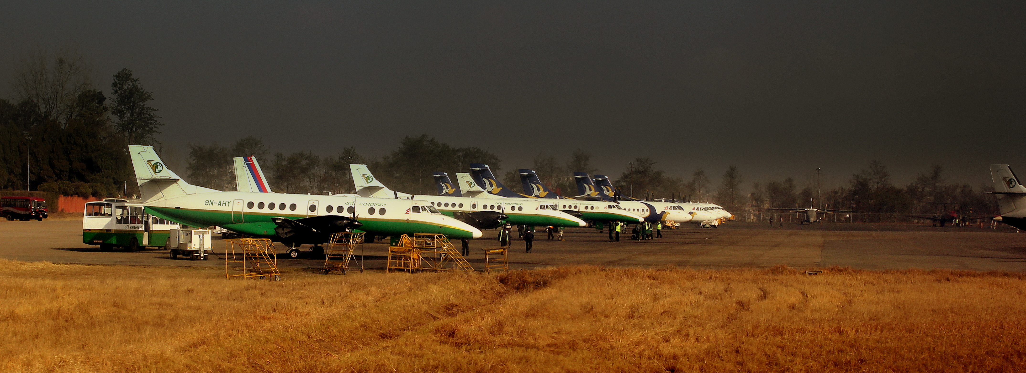 YETI AIRLINES JETSTREAM 41,S AND BUDDHA AIR ATR42/72,S ON THE DOMESTIC RAMP AT TRIBHUVAN